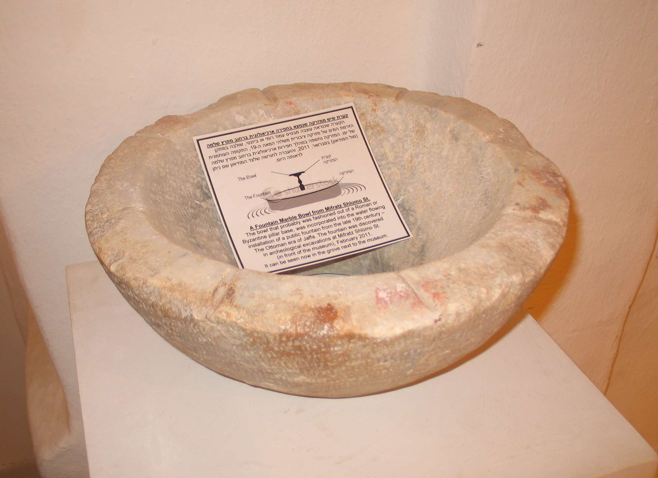 A fountain marble bowl from Mifrats Shlomo st, late 19th century (probably from Roman / Byzantine column base), Jaffa museum, Jaffa, Israel.